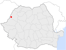 Location of Salonta in Romania.